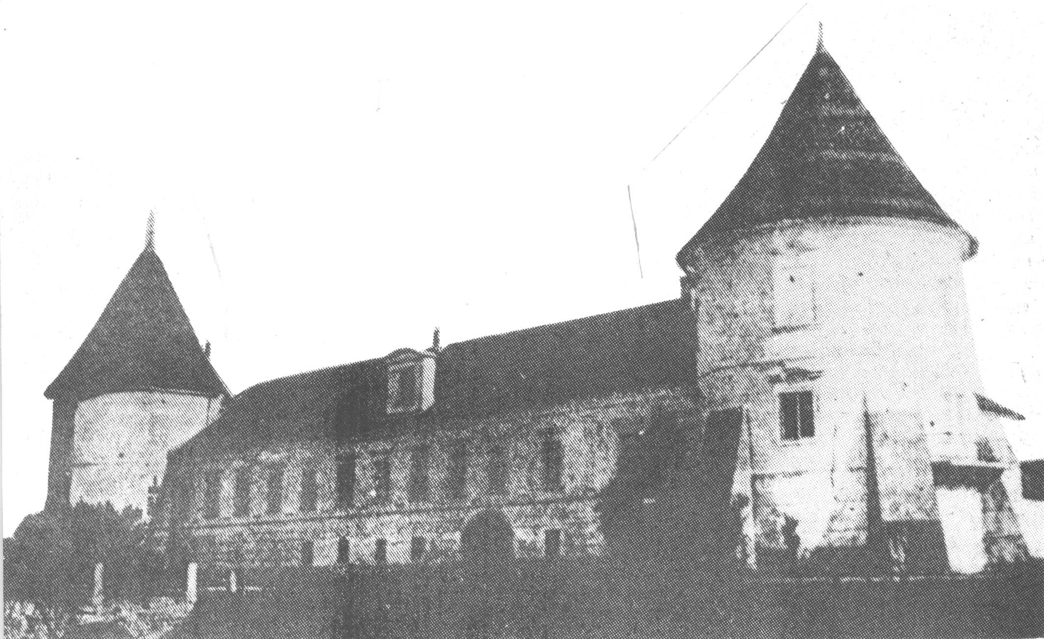 Kerestinec camp where, during during an attempted breakout of prisoners in July 1941, more than 80 prominent communists and patriots were killed.